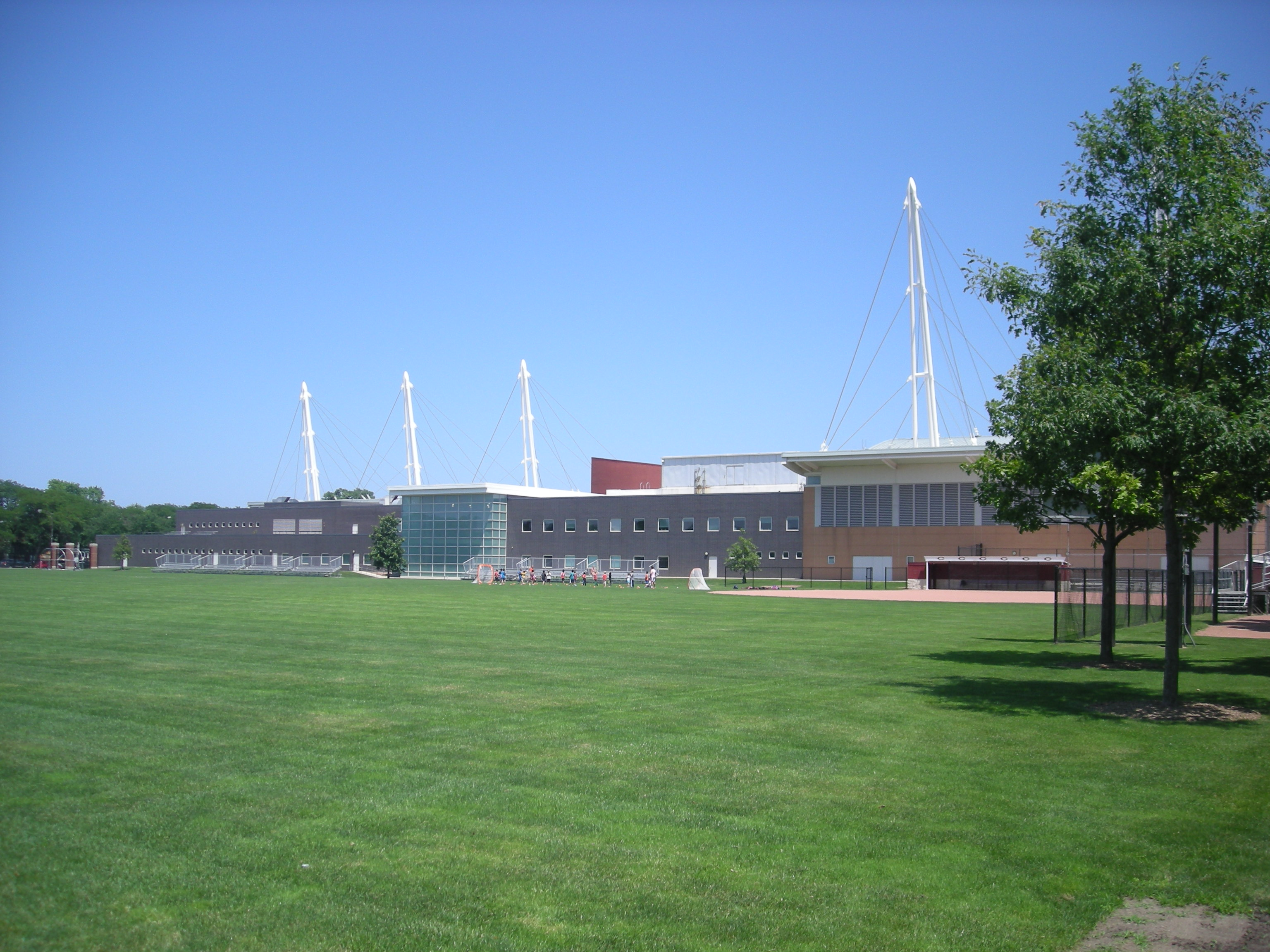 The Gerald Ratner Athletics Center on the campus of the University of Chicago in Chicago, Illinois (United States).